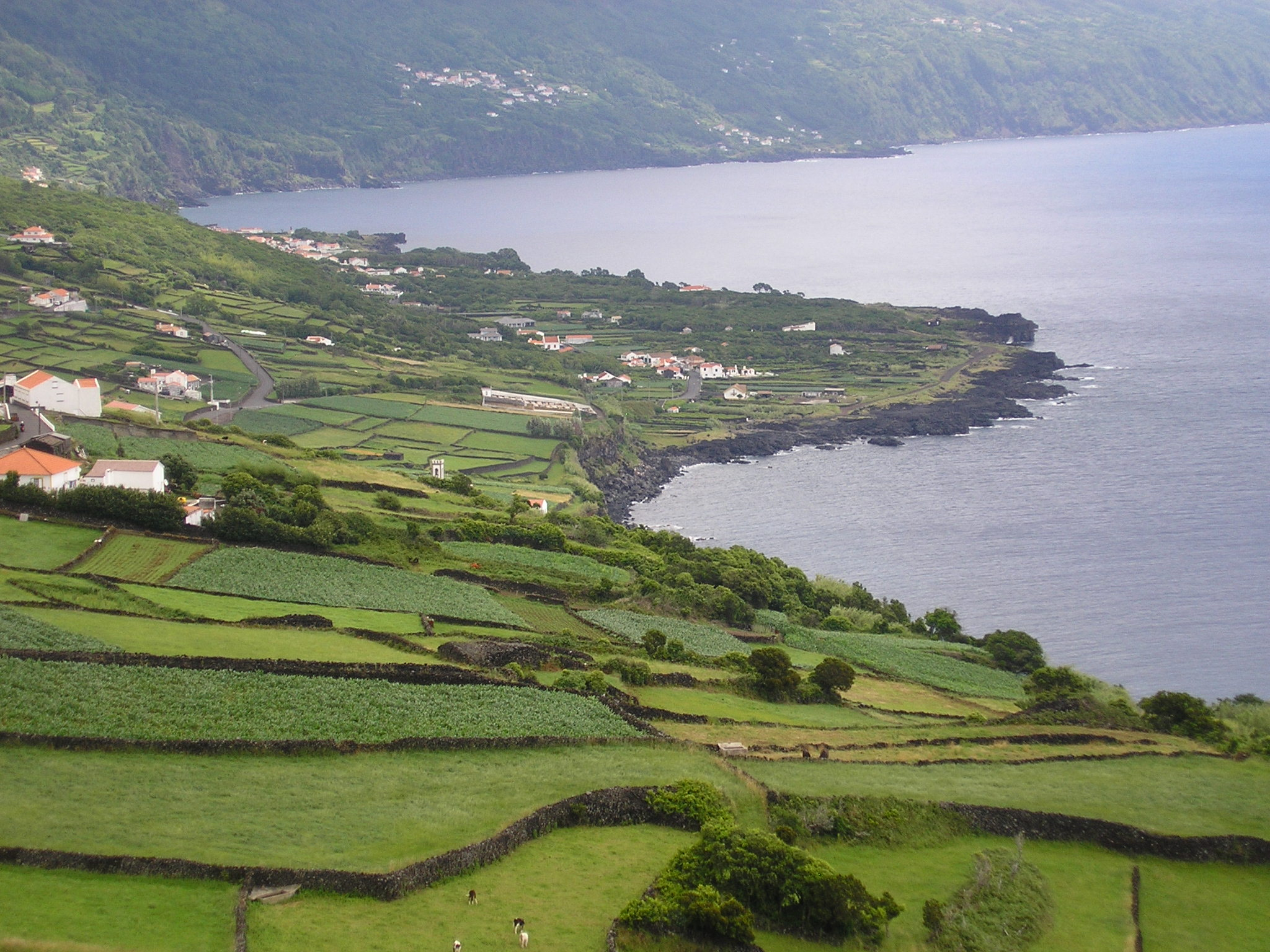 The lava delta at Ponta dos Biscoitos near Santa Cruz das Ribeiras, Pico Island, Azores